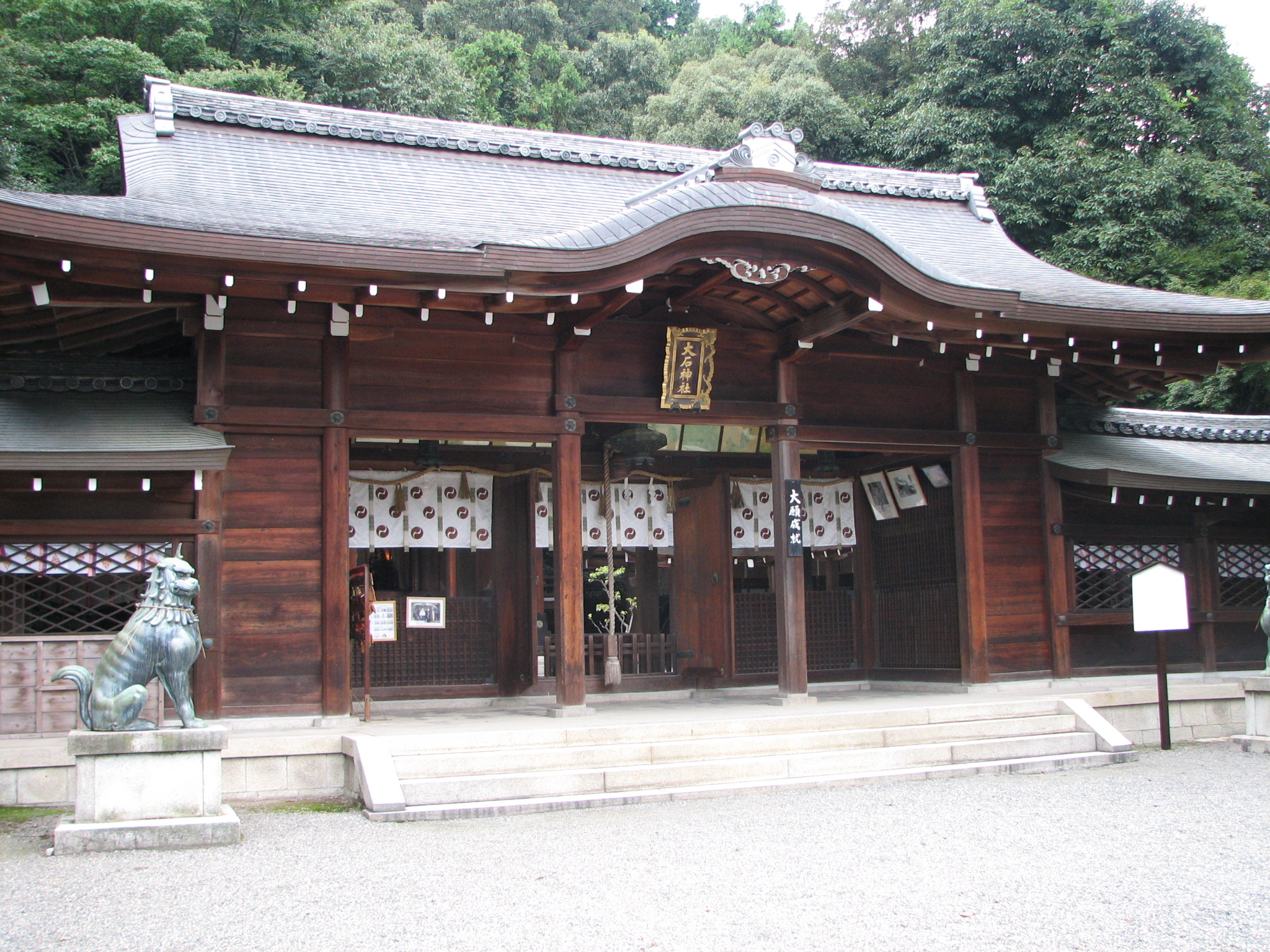 the haiden of Ōishi Shrine, Yamashina, Kyōto, Japan 大石神社拝殿（京都市山科区）